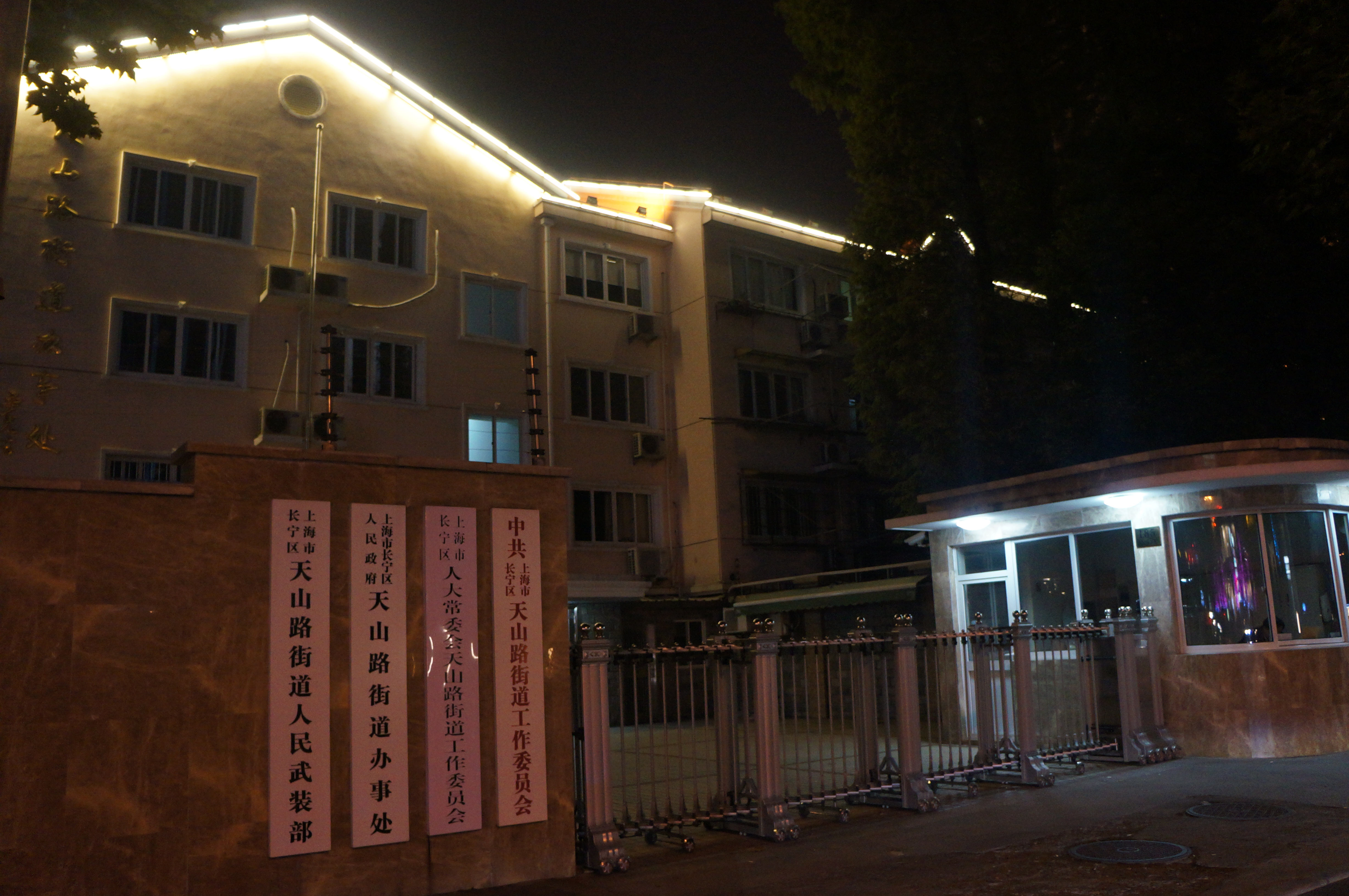 201611 Government of Tianshan Road Community